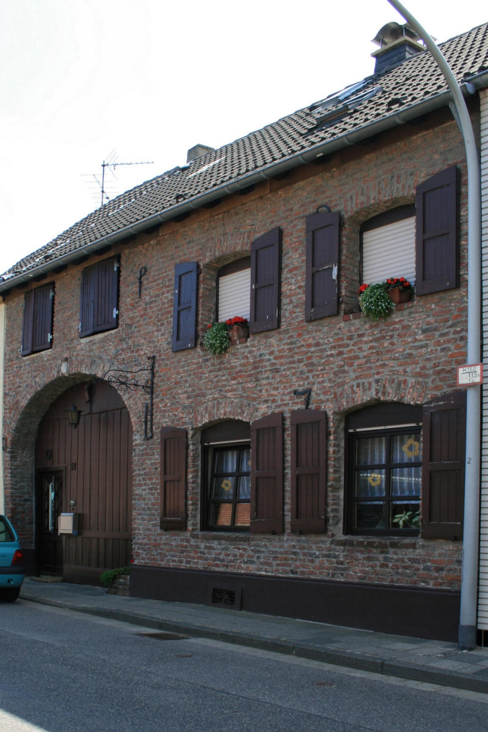 Cultural heritage monument No. K 037 in Mönchengladbach